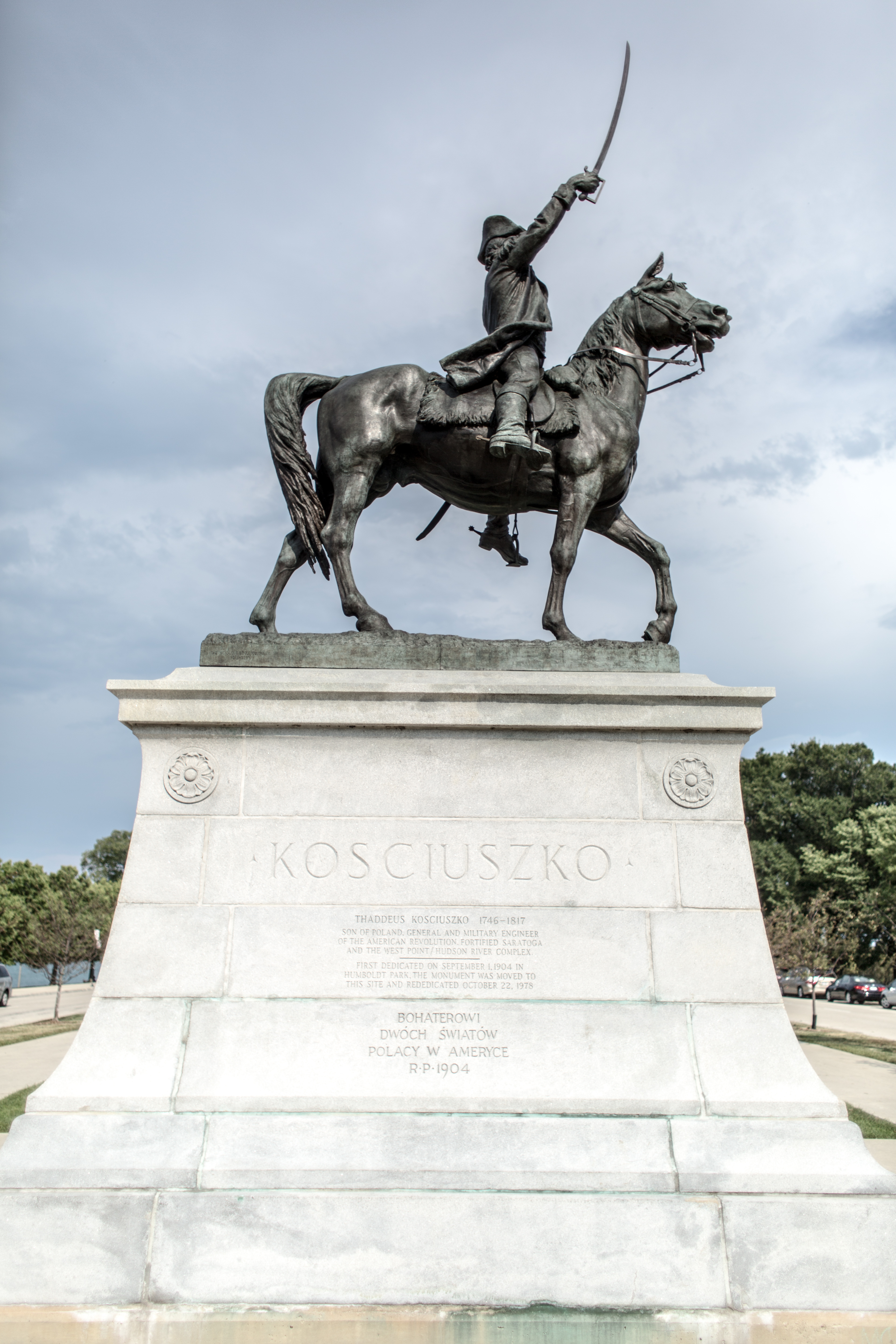 KOSCIUSZKO statue Northerly Island Chicago 2015